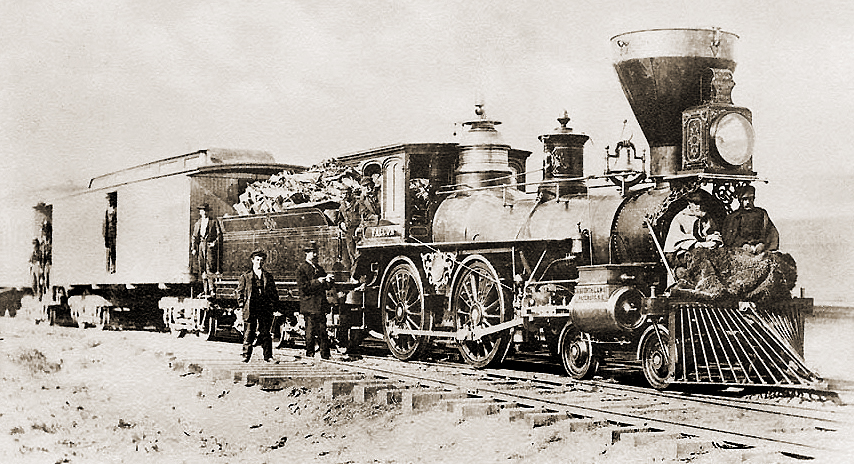 Central Pacific Railroad locomotive No. 113 "FALCON" at Argenta, Nevada, March 1, 1869, with UPRR engineer Jacob Blickensderfer (left) and CPRR engineer Lewis Metzler Clement (right) sitting on its pilot inspecting the track as members of the U.S. Special Pacific Railroad Commission. Locomotive built by Danforth Locomotive Works, Paterson, NJ (4-4-0, 4.8' drivers, 15" cylinders, 22" stroke)